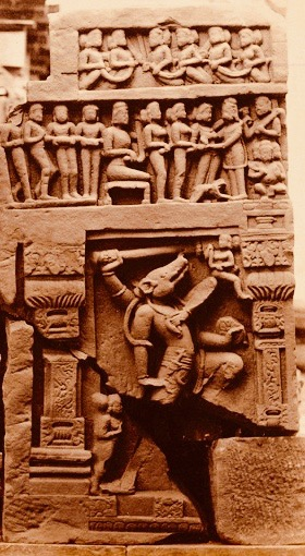 The Kankali Temple at Tigowa, Madhya Pradesh dates from 400-425 CE. It is an early example of freestanding stone structural Hindu temple architecture. The temple also includes reliefs with Vaishnavism, Shaktism and Shaivism themes. Above is the narrative of man-boar avatar of Vishnu named Varaha rescuing earth goddess named Bhudevi, set in niches framed by pilasters with pot and foliage capitals. Over the figure of rescue hero Varaha, the ruined relief narrates the myth of churning the milky cosmic ocean with the tug-of-rope by the gods and demons. Derivative work on 5th century relief ruins from the Tigawa Kankali Devi Vishnu temple, Madhya Pradesh, 1875 photo.jpg